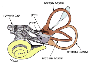 Vestibular System